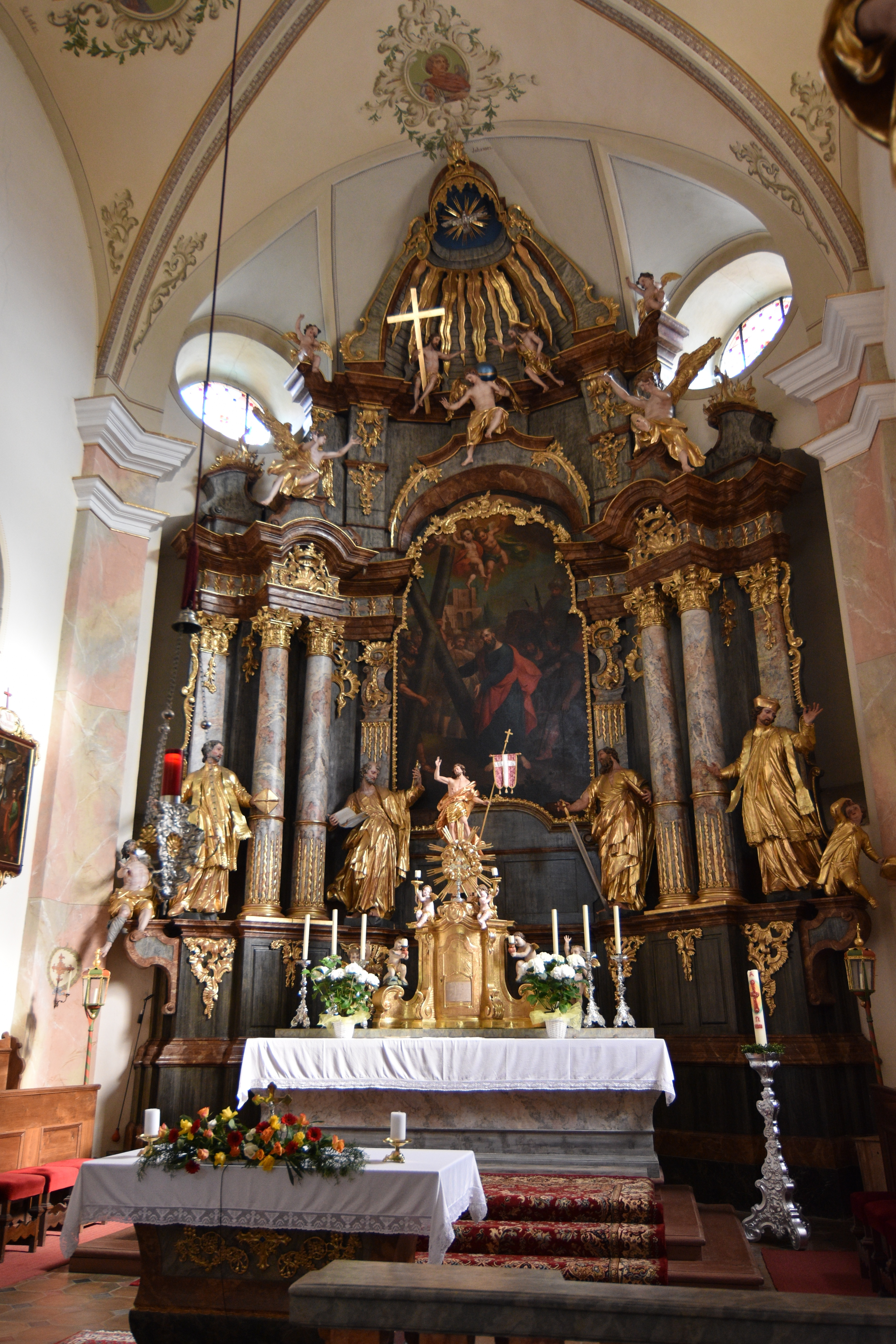 Church St. Andrä im Sausal - Interior